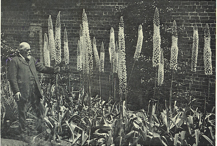 Photograph of Henry John Elwes and Eremurus robustus 'Elwesianus'